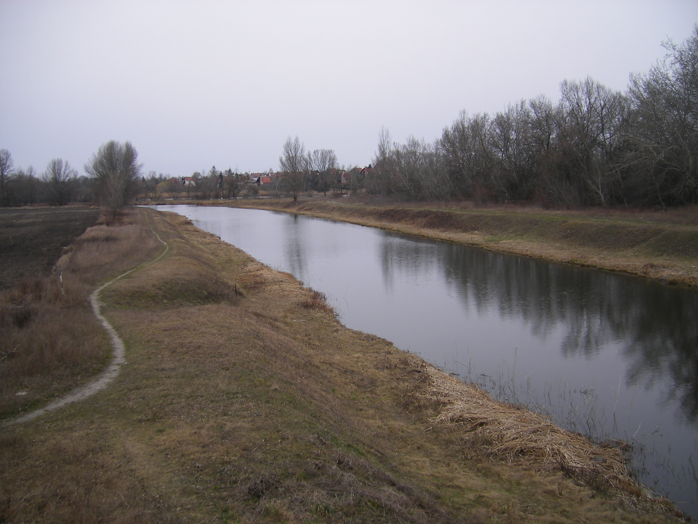 Žitava river at Zsitvatő